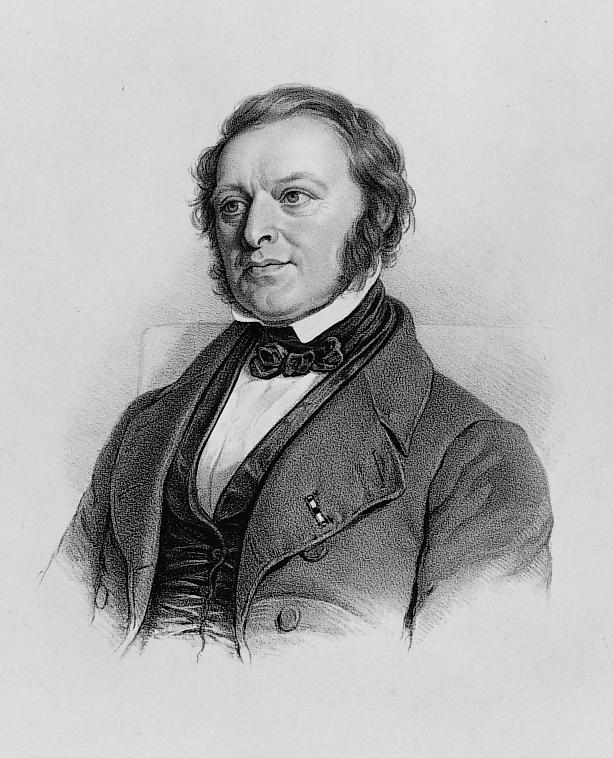 Johan Georg Forchhammer (1794-1865), Danish geologist and mineralogist, Professor, Director of the College of Advanced Technology (now Technical University of Denmark), Rector of the University of Copenhagen